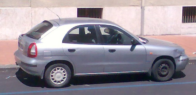 Daewoo Nubira 5door